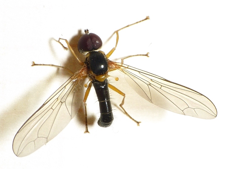 Nephrocerus scutellatus, location: The Netherlands - Rhenen - Blauwe Kamer